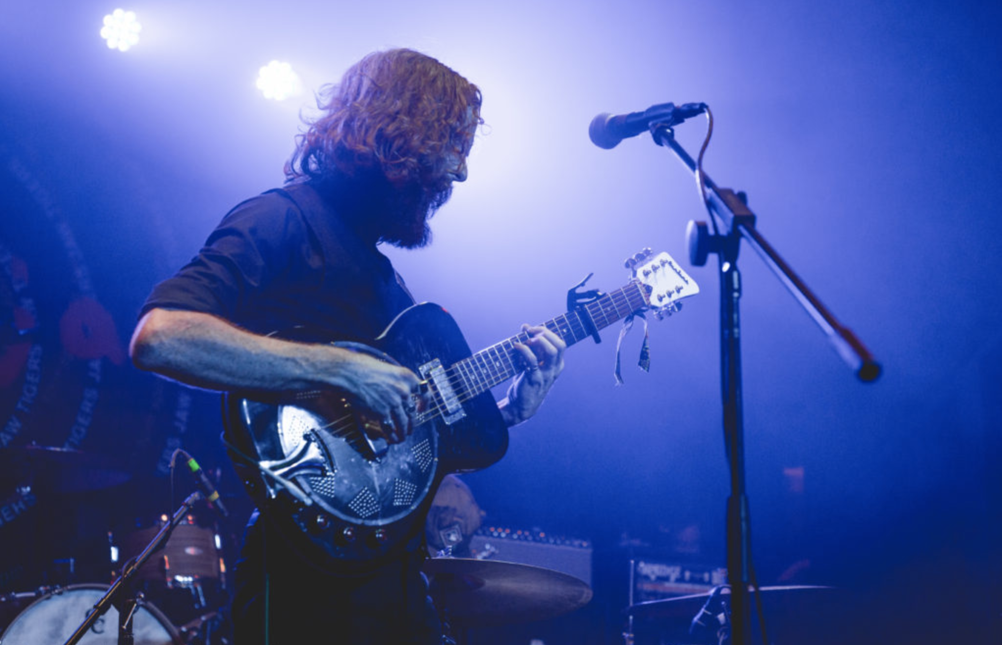 Hawthorne Theatre Portland Oregon June 9, 2017